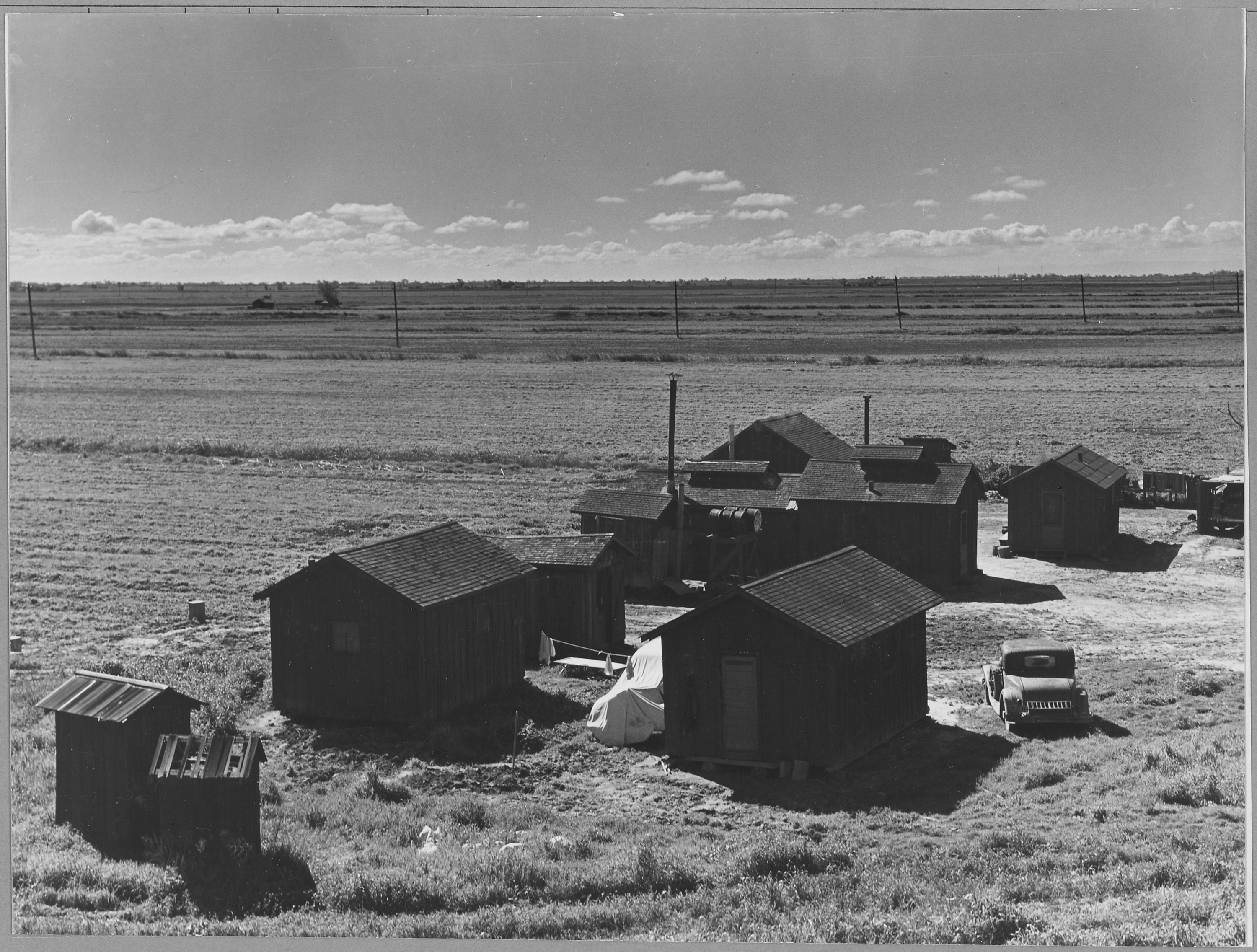 Scope and content: Full caption reads as follows: Ryer Island, Sacramento County, California. Company camp for crew of Filipino asparagus field workers. Free wood, no lights, no privy. In world's largest asparagus district on delta of Sacramento River.